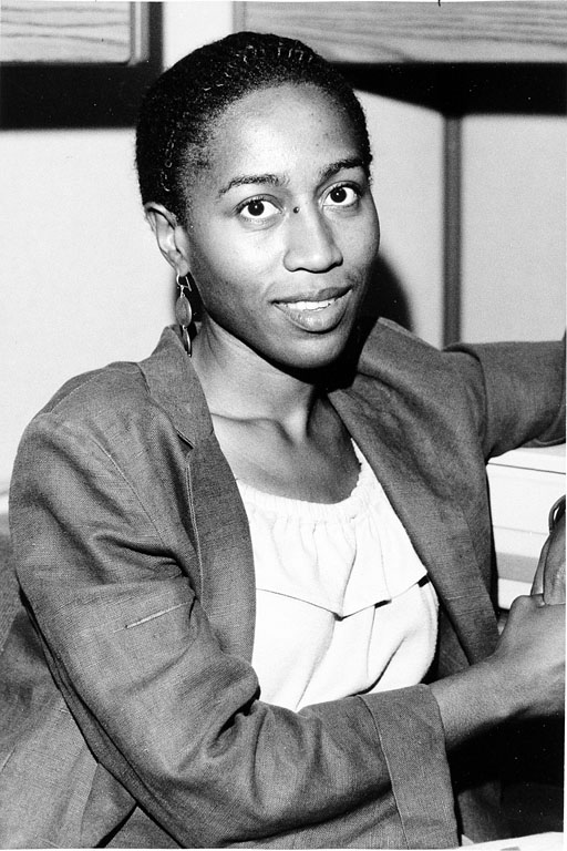 Portia James, Anacostia Museum historian (1985 - present).